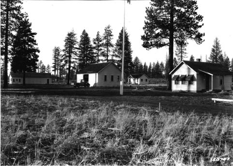 Cabin Lake Ranger Station, Equipment storage shed, machine shop, fireman’s residence and Office.